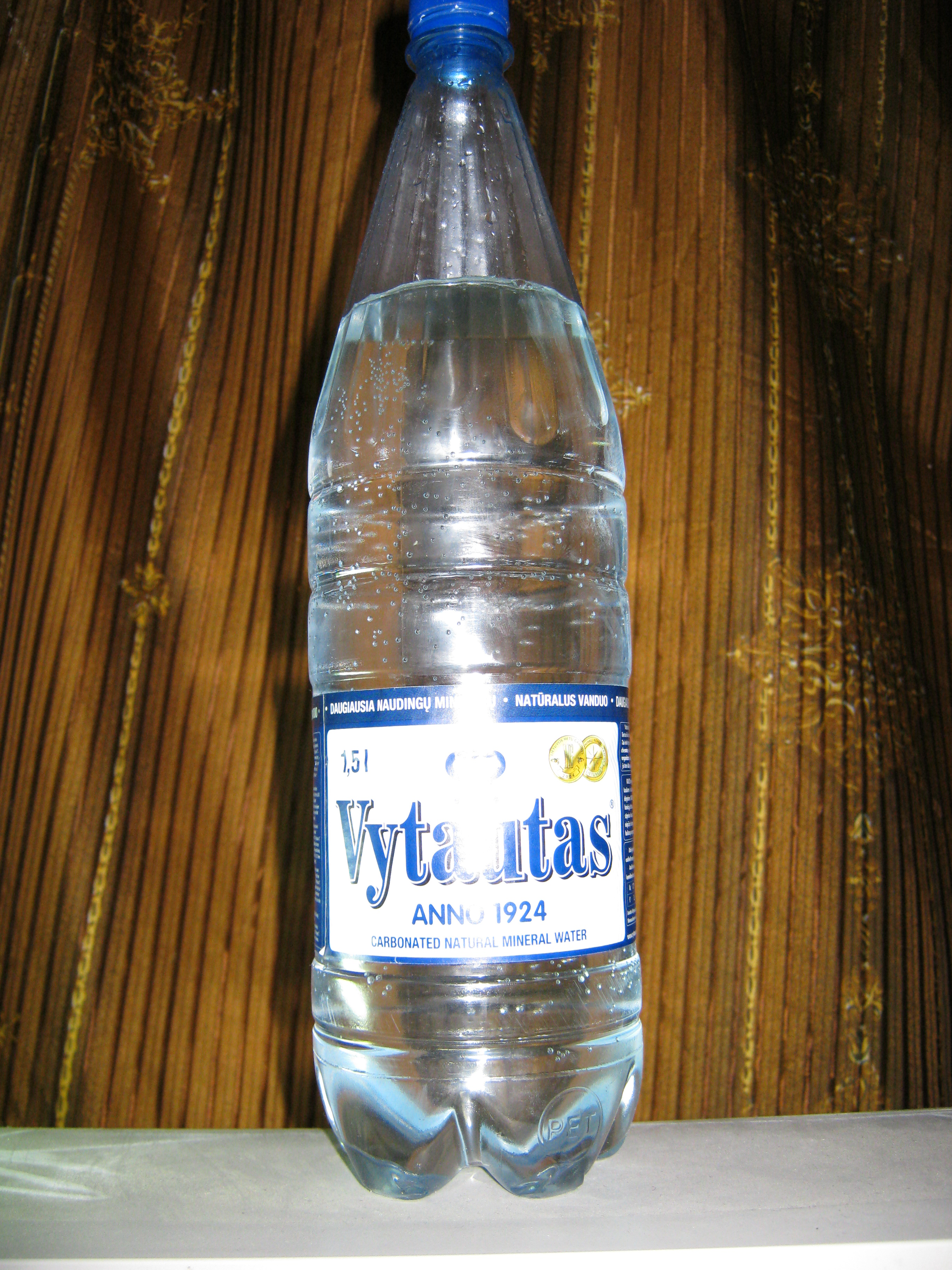 "Vytautas"